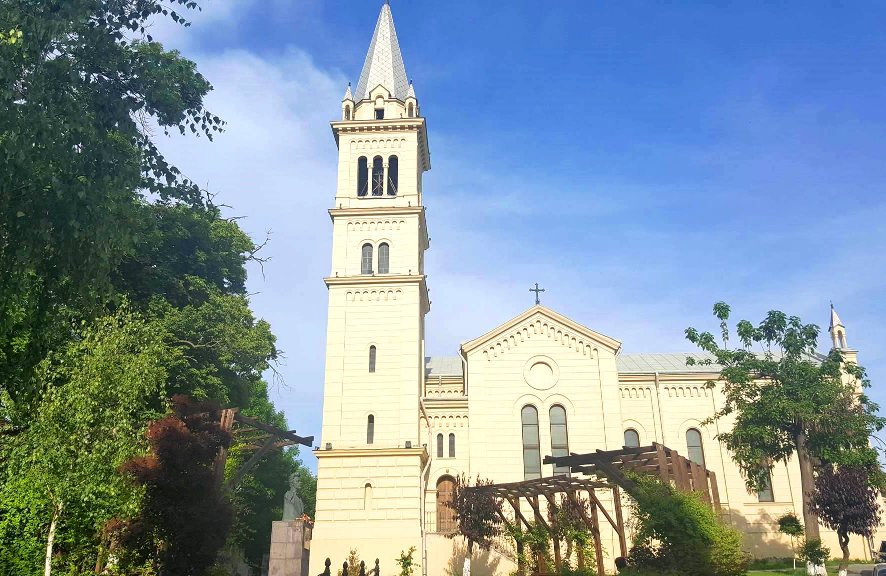 The external facade, with garden, of st. joseph's romano catholic church in Sighisoara